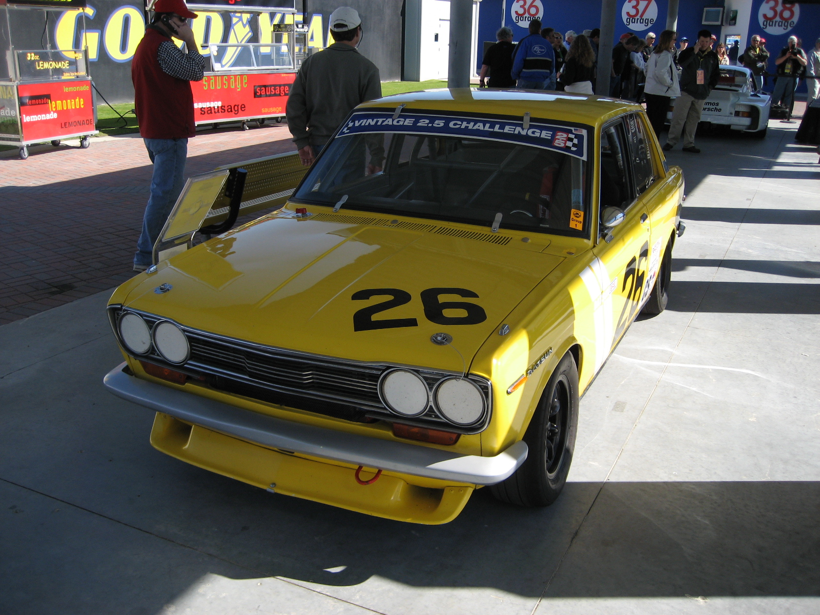 Photograph I took at the 2007 Rolex 24 at Daytona of a Datsun 510 race car.